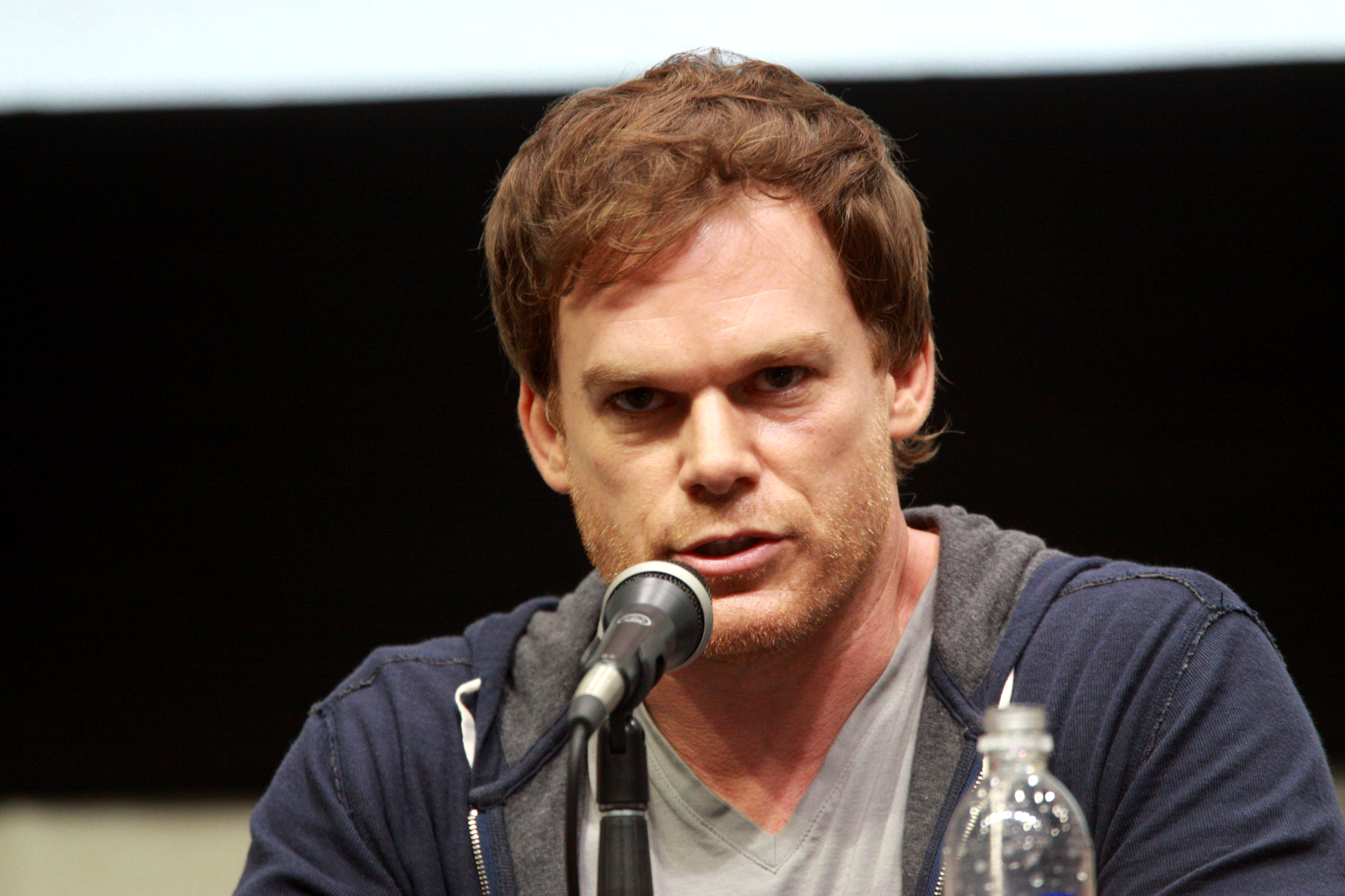 Michael C. Hall speaking at the 2013 San Diego Comic Con International, for "Dexter", at the San Diego Convention Center in San Diego, California.